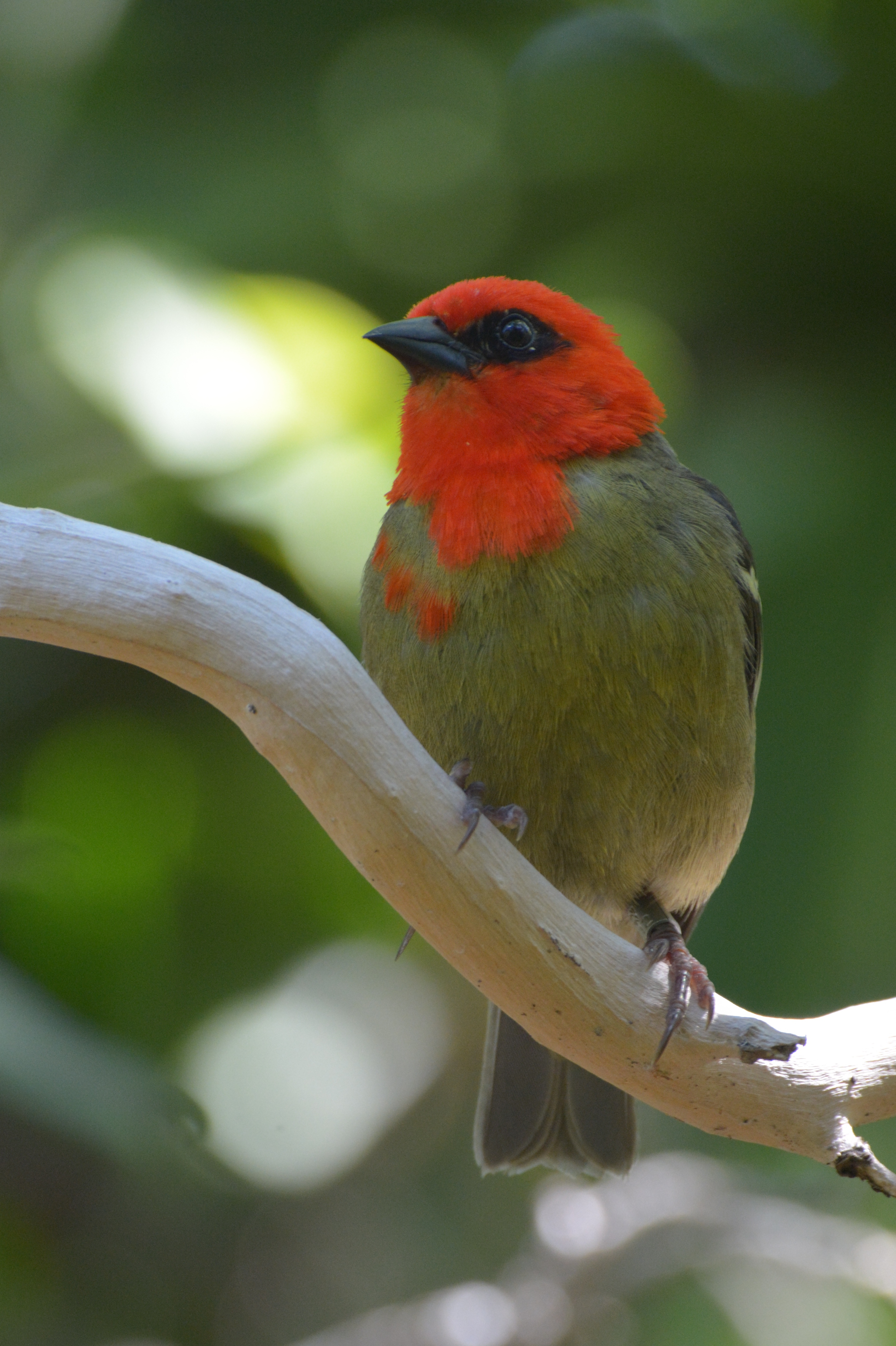 Taken on 2013-12-30 on Mauritius, Nature Reserve Ile aux Aigrettes